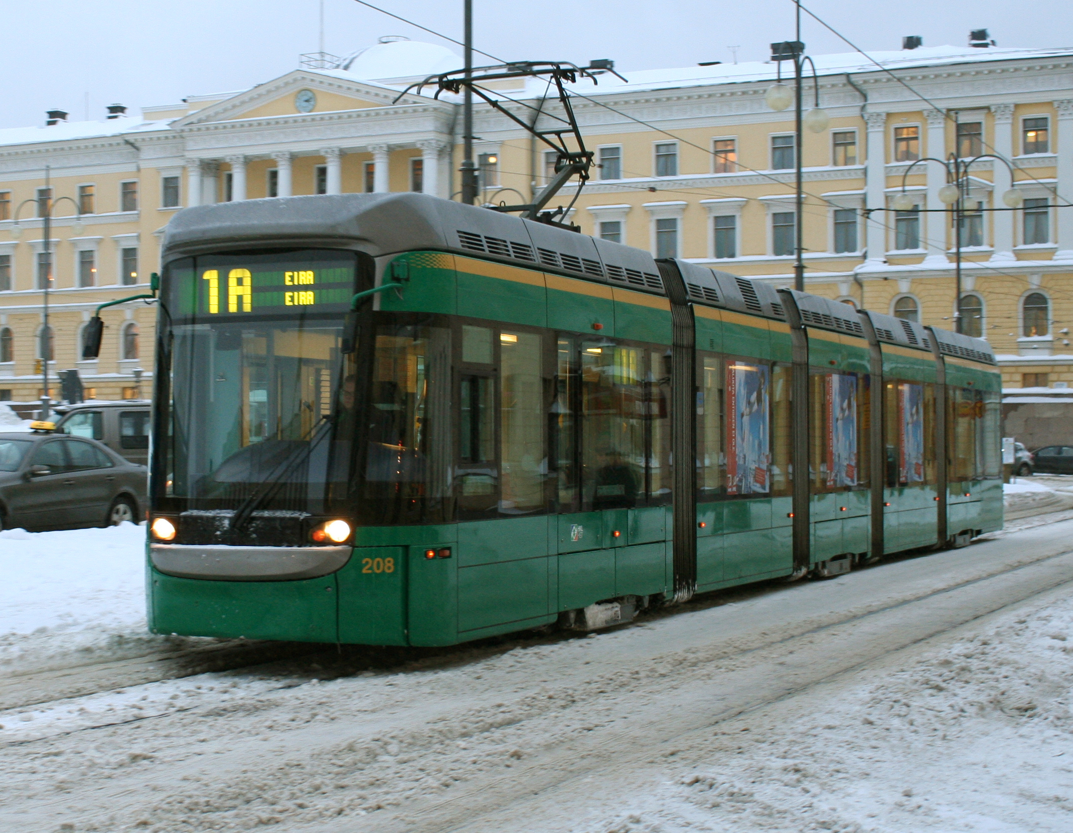 Helsinki City Transport tram number 208, type Variotram built by ADtranz in 1999, on line 1A in snowy Senate Square with the Palace of the Council of State in the backround.